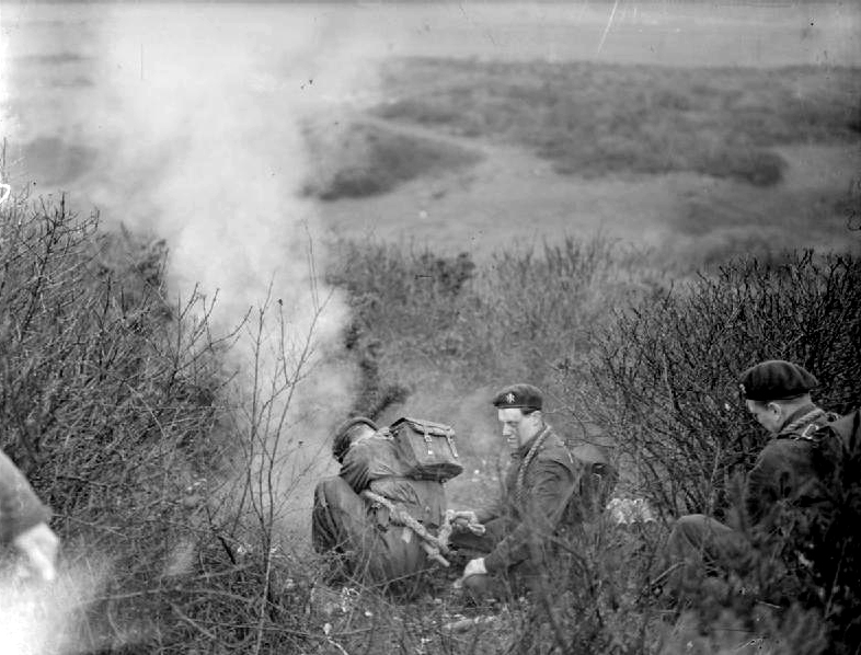 Belgian Commandos in Training in Britain, 1945 As part of their Commando training, somewhere in Britain, three Belgian soldiers in charge of mortars fire a smoke bomb before an attack.